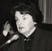 Dianne Feinstein, U.S. Senator from California (1994)